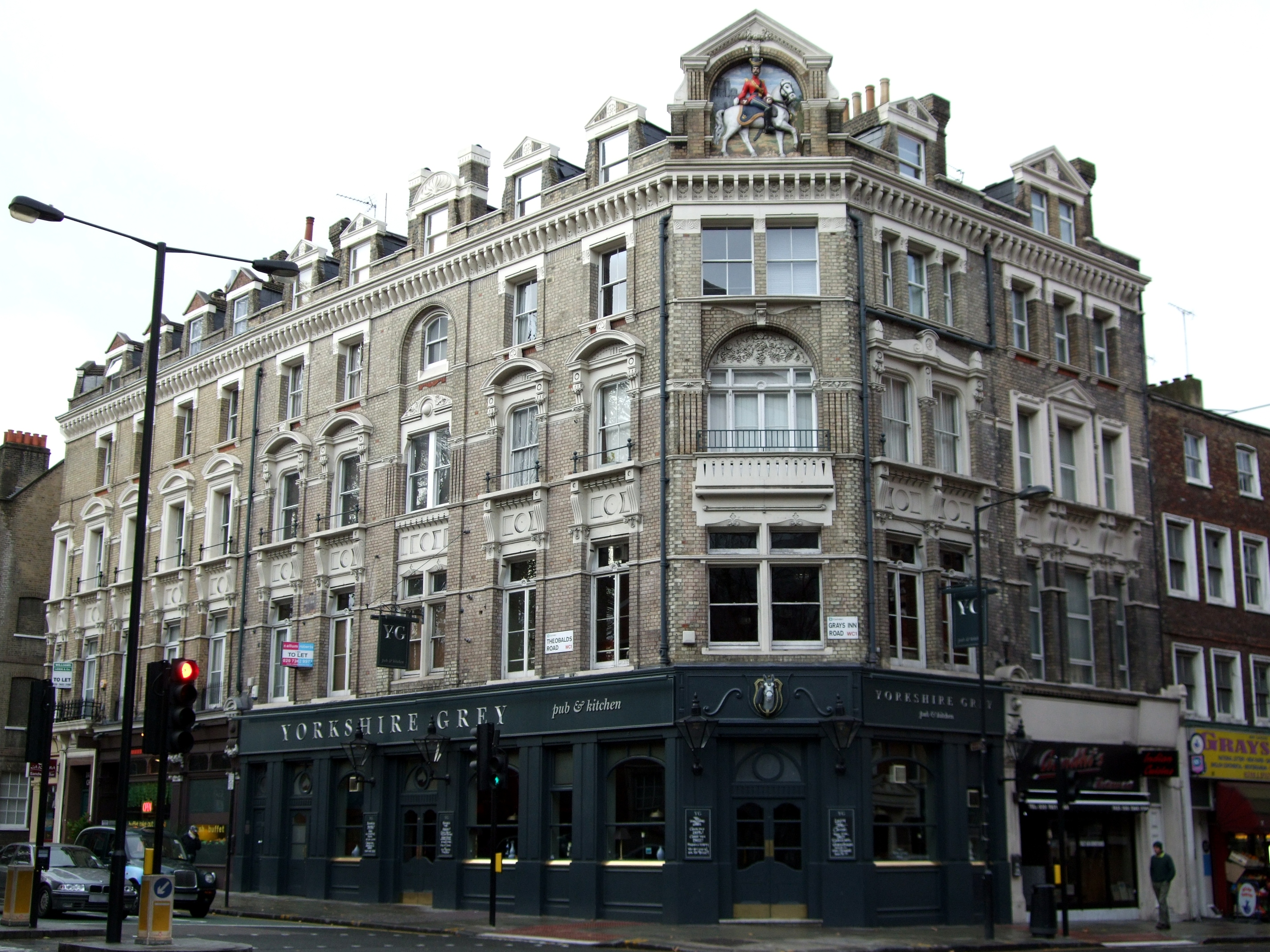 Nice enough refurbished pub on the corner of Theobald's Rd. Does a good pub quiz. Address: 2 Theobalds Road (also listed at 29-33 Grays Inn Road). Owner: Enterprise Inns (website); Clifton Inns (former). Links: Randomness Guide to London Fancyapint Beer in the Evening Qype Dead Pubs (history)